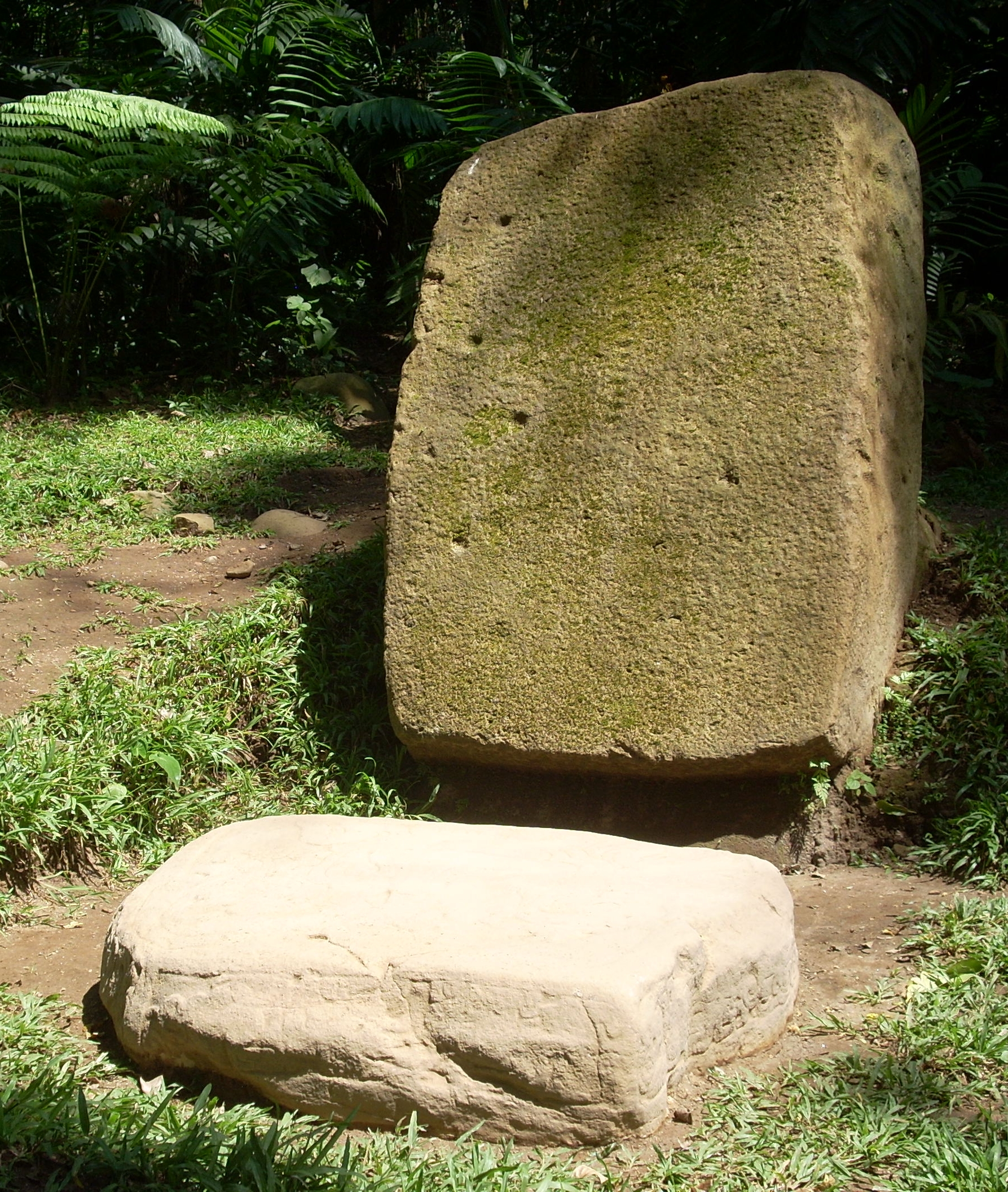 Stela 14 with a replica of Altar 48. Takalik Abaj, El Asintal, Retalhuleu, Guatemala.